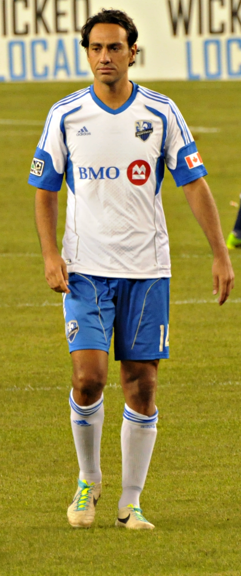 Alessandro Nesta of the Montreal Impact during a Major League Soccer game against the New England Revolution in Foxborough, Massachusetts, on 7 September 2013.